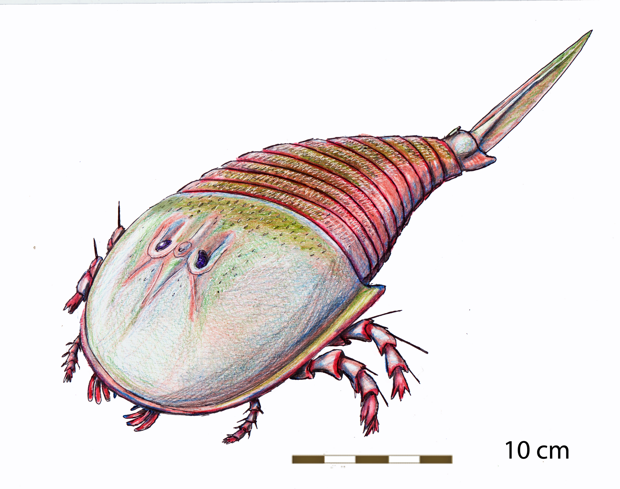 Campylocephalus oculatus, Eurypterid frome Late Permian (Kungurian) of Durasovski mine in Bashkortostan. Reconstruction follows Kutorga (1838) for the head, with the rest following reconstructions of the related Hibbertopterus; Woodward (1872), Whyte (2005)